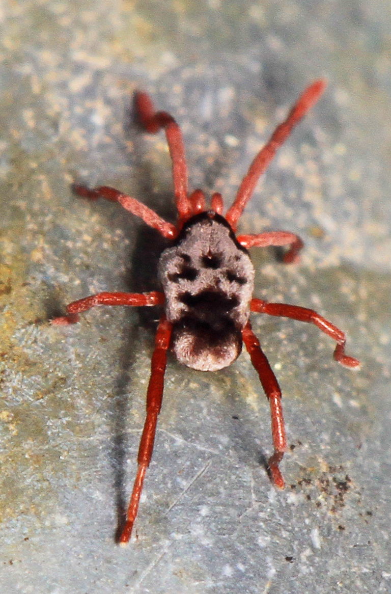 Long-legged Velvet Mite - Leptus species, Occoquan Bay National Wildlife Refuge, Woodbridge, Virginia